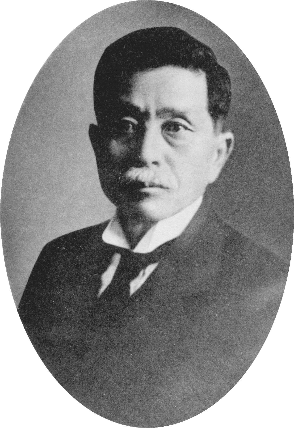 Kakujirō Yamazaki, Dean of the Faculty of Economics at Tokyo Imperial University.